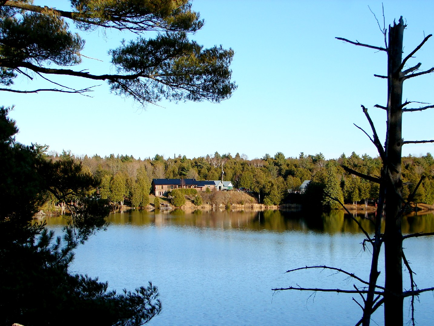 Lavant as seen across Robertson Lake (Lanark Highlands Township), Ontario, Canada